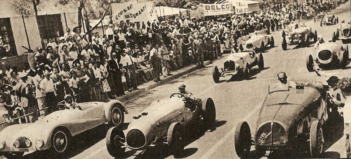 Photo of the start of "Circuito Asmara" race car, done in 1950 Eritrea